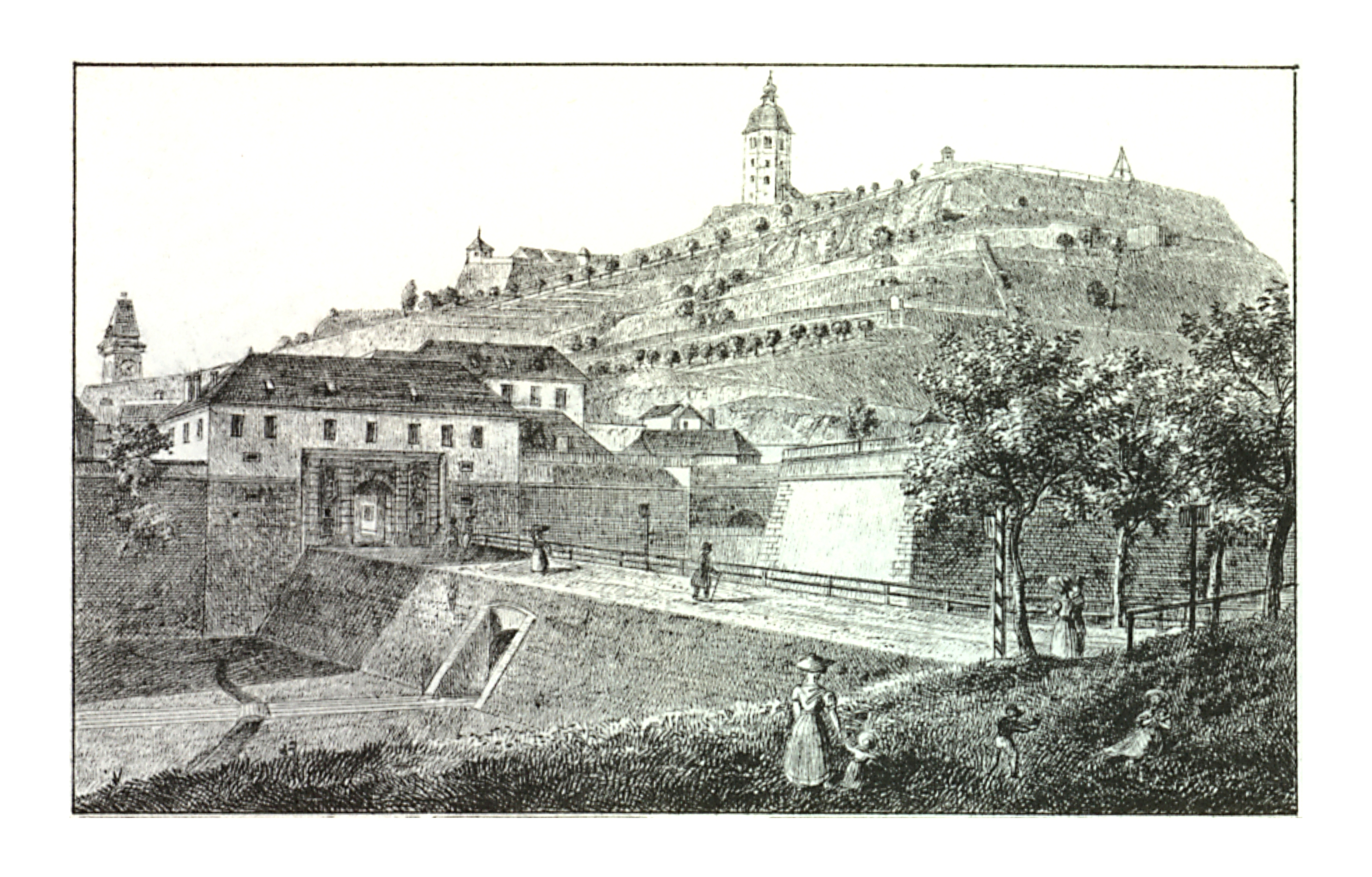 J. F. Kaiser - lithographirte Ansichten der Steyermärkischen Städte, Märkte und Schlösser, Graz 1824-1833 Joseph Franz Kaiser (1786–1859) Alternative names J. F. KaiserDescriptionAustrian printer and editorDate of birth/death 11 March 1786 19 September 1859Location of birth/death Graz (Styria) GrazAuthority control : Q1499963 VIAF: 30629353 ISNI: 0000 0000 3083 0153 LCCN: n87141671 GND: 129880159 NLP: A24960305 WorldCat creator QS:P170,Q1499963 . Scanprojekt Community Projektbudget 2012 This scan or this PDF-file was created within the GLAM-project Bookscanning, supported by Wikimedia Germany and Wikimedia Austria as a part of the community-project to capture books, documents and pictures which are not eligible to copyright or for which the copyright has expired. This document describes or depicts an object which is located in Austria today. Send requests for uncompressed scans to Hubertl. This work is in the public domain in its country of origin and other countries and areas where the copyright term is the author's life plus 100 years or less. You must also include a United States public domain tag to indicate why this work is in the public domain in the United States. This file has been identified as being free of known restrictions under copyright law, including all related and neighboring rights.